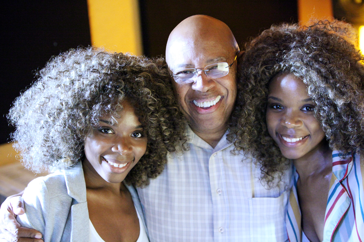 The Millen Sisters, Sonya and her twin sister Sabrina with L.T.D. founding member and music producer Billy Osborne in a Los Angeles recording studio, October, 5, 2012.